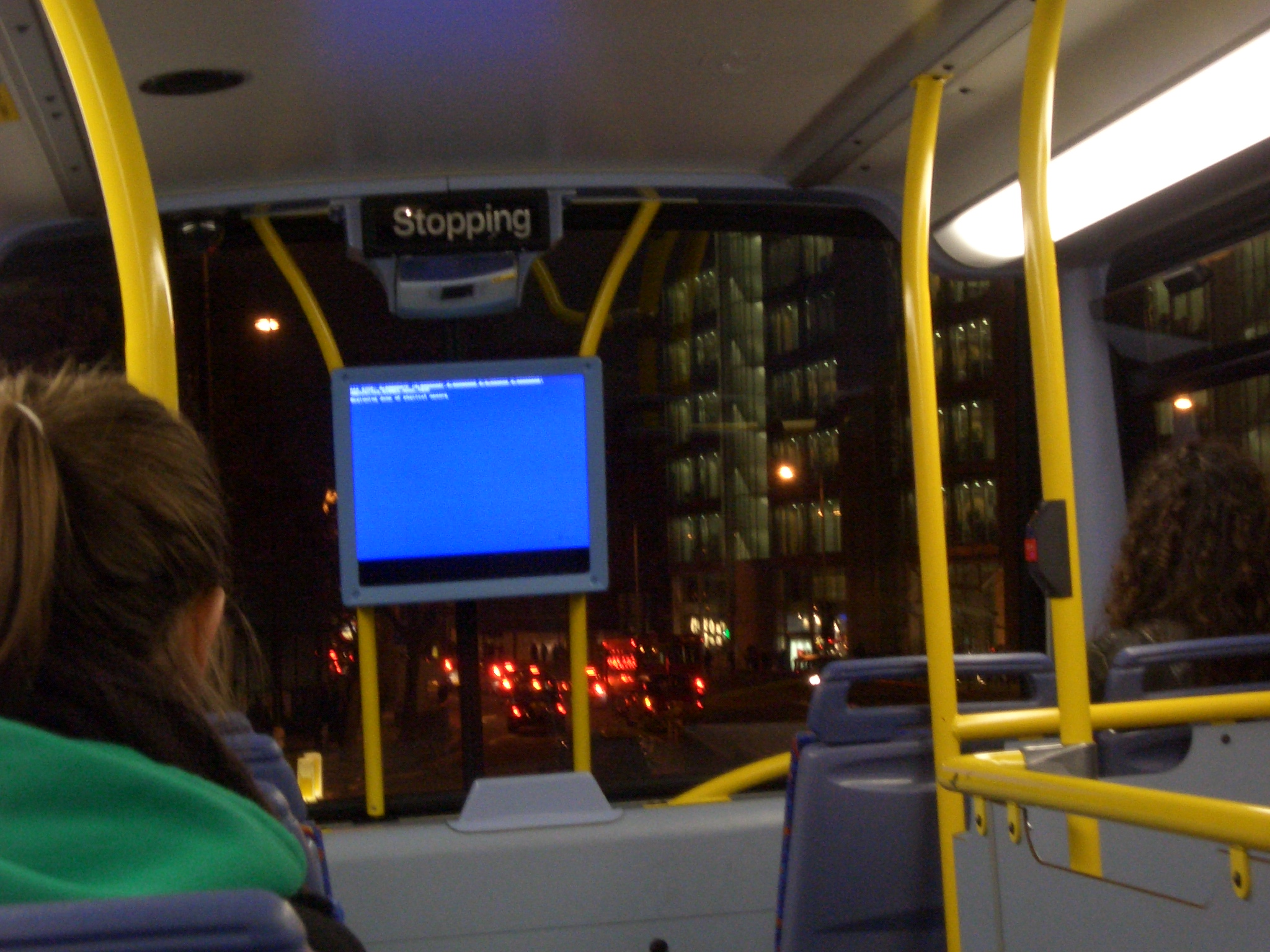 BSoD on a London Buses